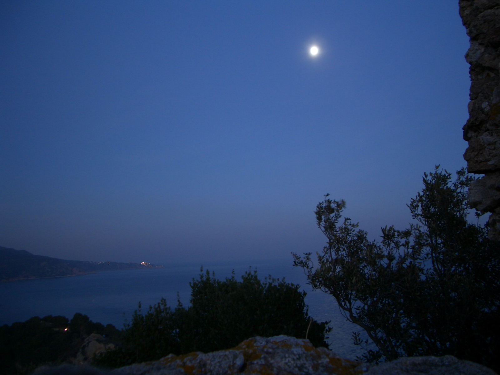 View of the Mediterranean sea from Cala Giverola, Costa Brava, Catalonia. The lights on the background are from the city of Sant Feliu de Guíxols.